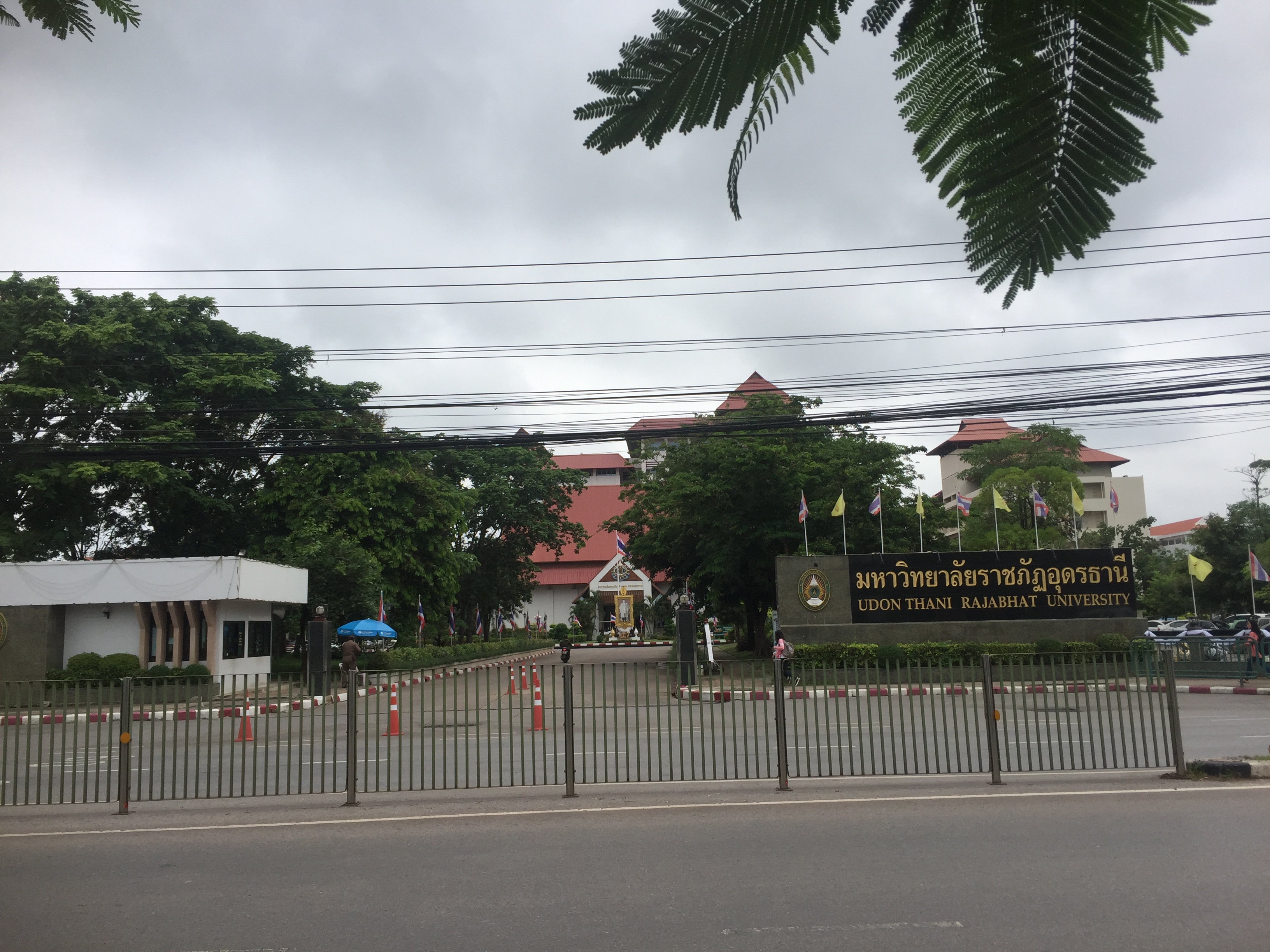 Udon Thani Rajabhat University in Udon Thani, Thailand